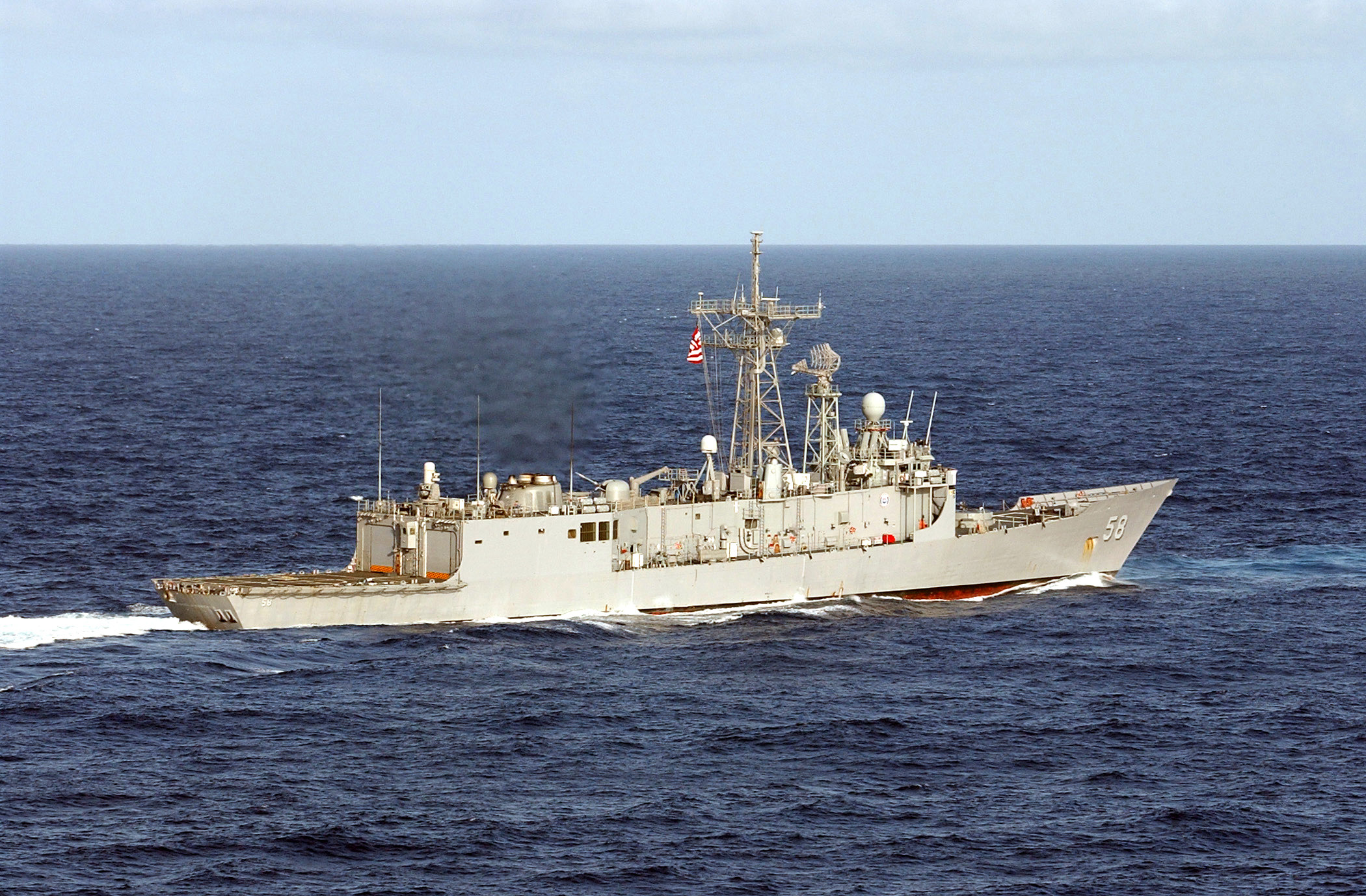 CARIBBEAN SEA (April 9, 2007) - Oliver Hazard Perry-class frigate USS Samuel B. Roberts (FFG 58) navigates in the Caribbean Sea during an exercise. Samuel B. Roberts is operating together with Chilean Ship (CS) Almirante Latorre (FFG 14) as part of Partnership of Americas (POA) 2007. POA focuses on enhancing relationships with partner nations through a variety of exercises and events at sea and ashore throughout South America and the Caribbean. U.S. Navy photo by Mass Communication Specialist Seaman Vincent J. Street (RELEASED)